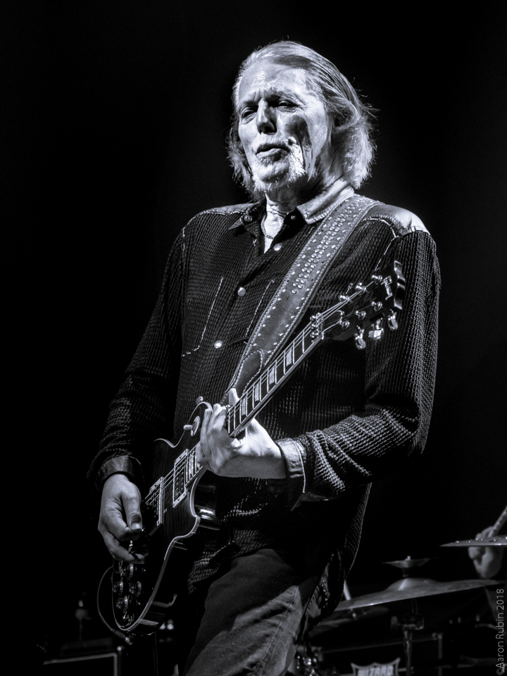 Scott Gorham of Black Star Riders and Thin Lizzy, playing at The Warfield Theater in San Francisco 4-19-2018 Photo: Aaron Rubin